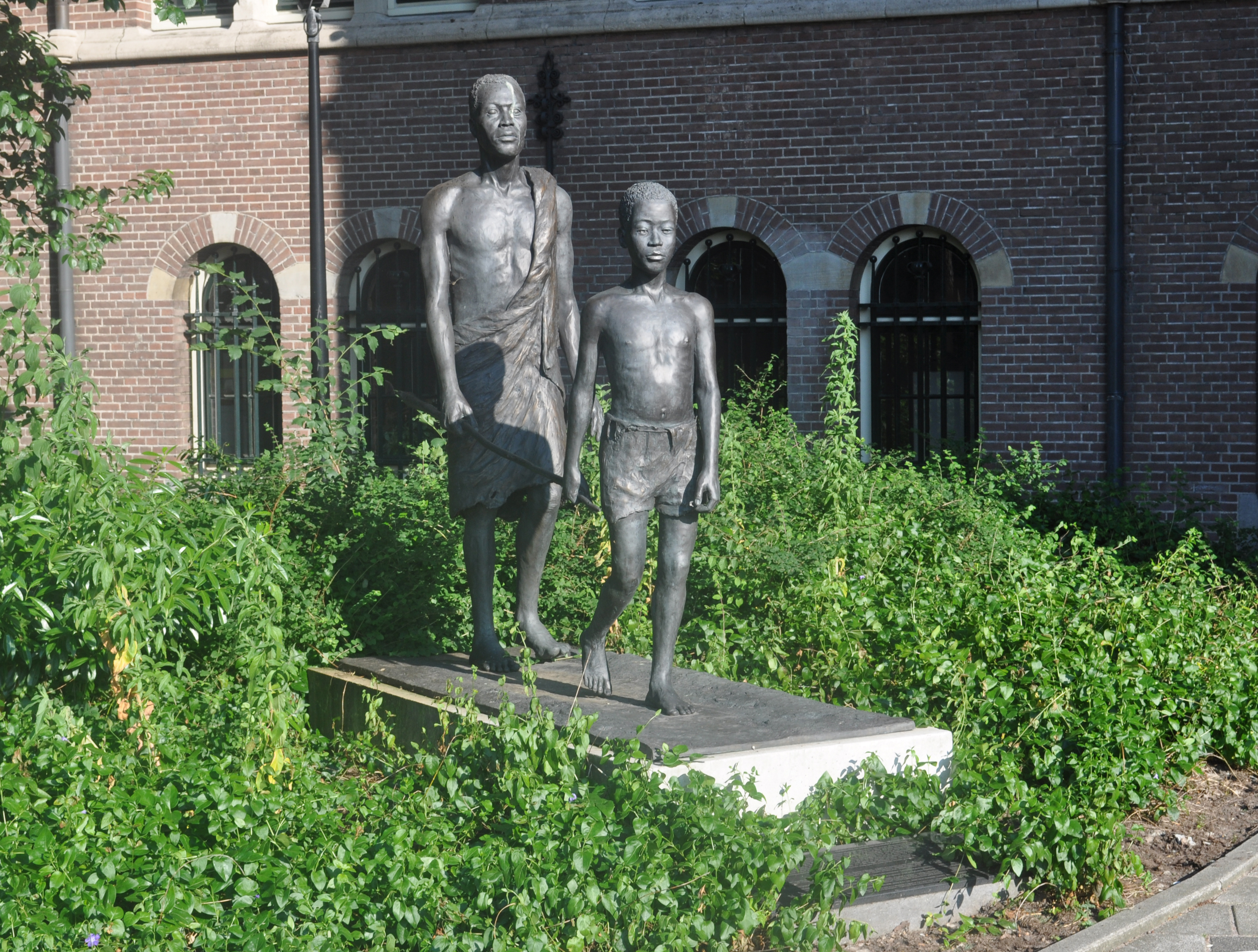 Sculpture "Sightless among Miracles" by Skip Wallen. Placed at the Mauritskade in Amsterdam in front of the Tropenmuseum. It represents a boy who helps an older man who was blinded by Onchocerciasis (River Blindness).